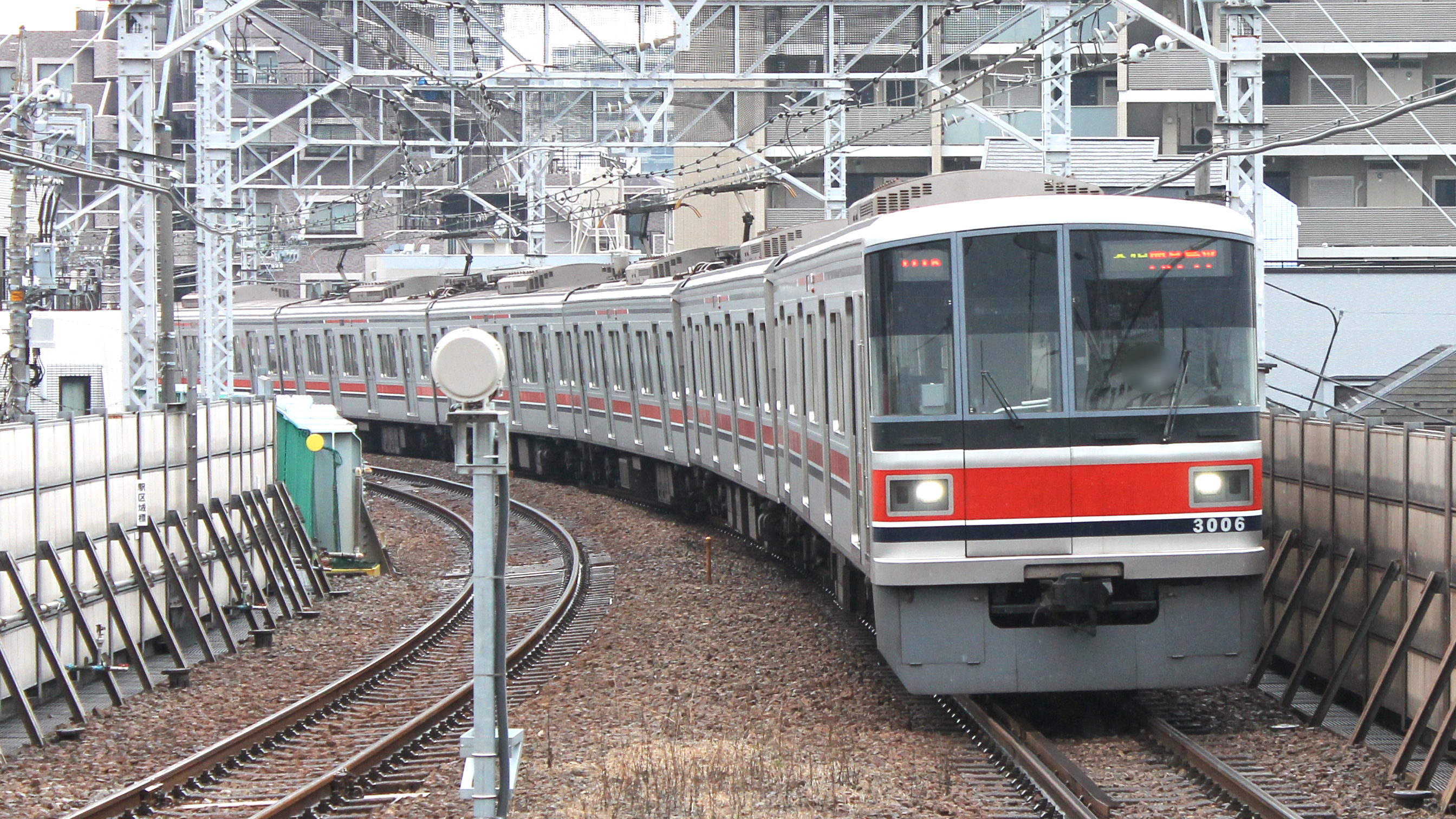 Tōkyū 3000 series EMU set 3006(the train's number on this pic is 3006) entering the Hasune Station on the Toei Subway Mita Line in Itabashi city, Tokyo, Japan